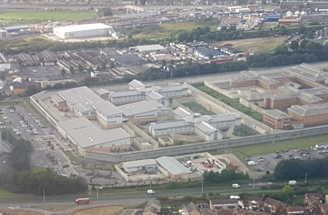 Aerial view of HM Prison Isis and a section of HM Prison Belmarsh (on the right) in Thamesmead West, south-east London, shortly before landing at London City Airport.